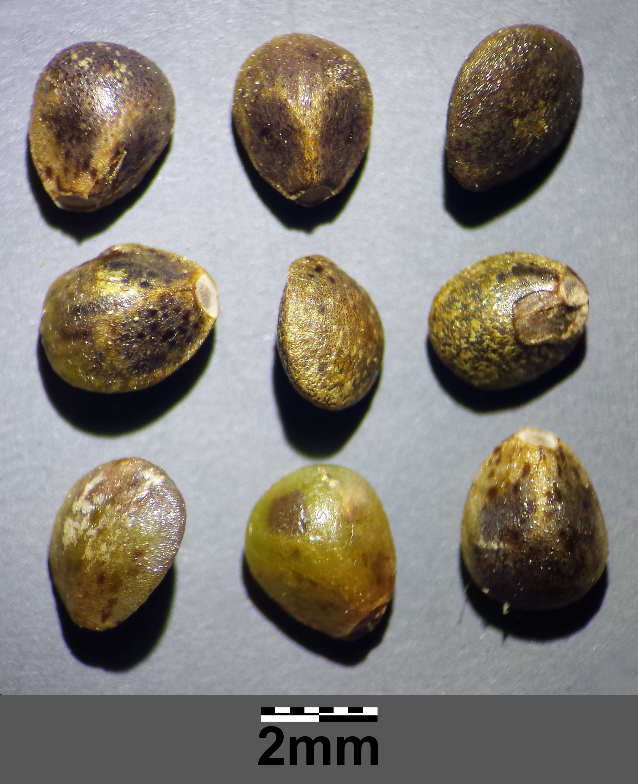 Fruitlets Taxonym: Galeopsis tetrahit ss Fischer et al. EfÖLS 2008 ISBN 978-3-85474-187-9 Location: near Arbesbach, Groß-Gerungs, district Zwettl, Lower Austria - ca. 850 m a.s.l. Habitat: border of a field